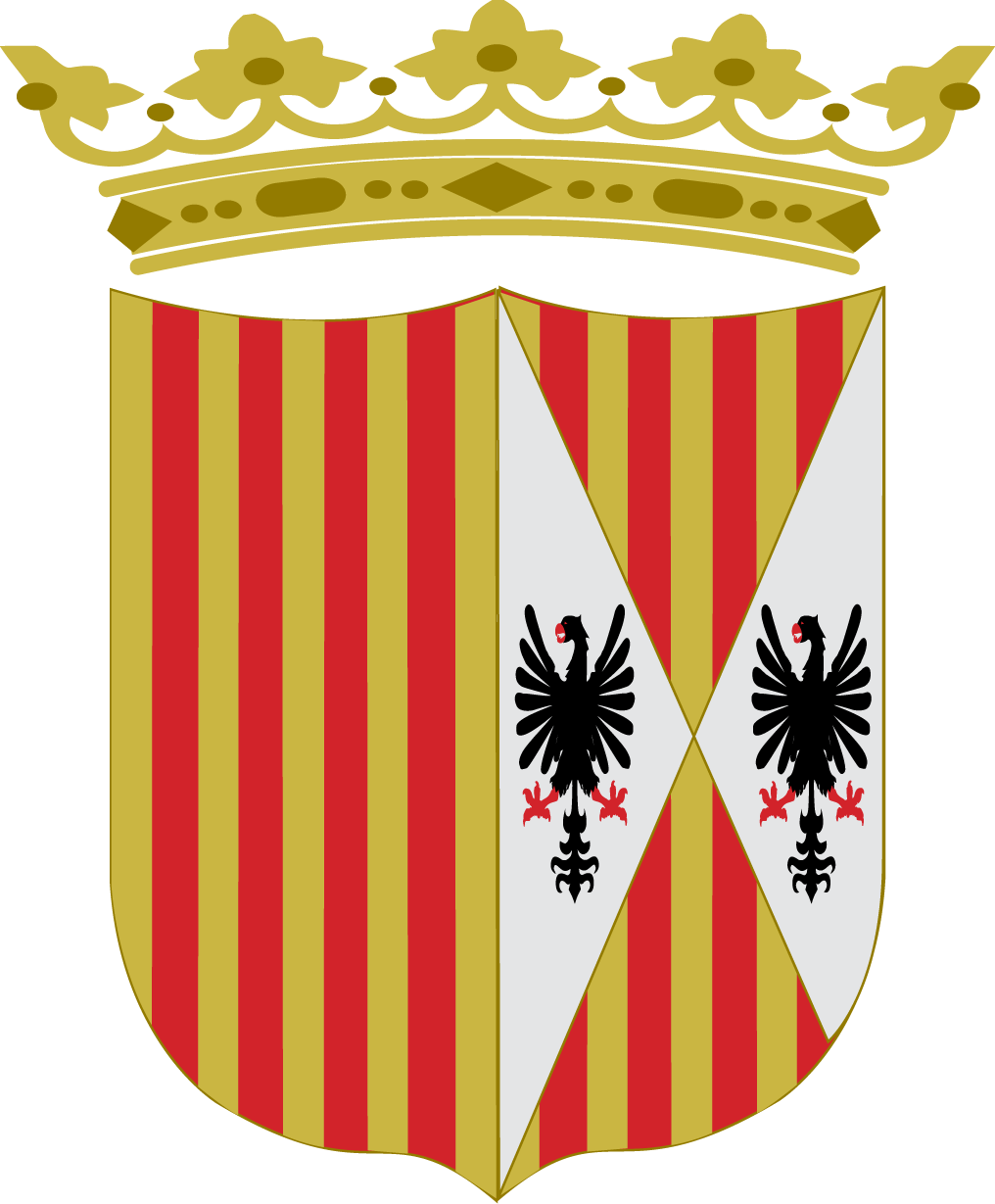 Coat of arms of the Crown of Aragon and Sicily